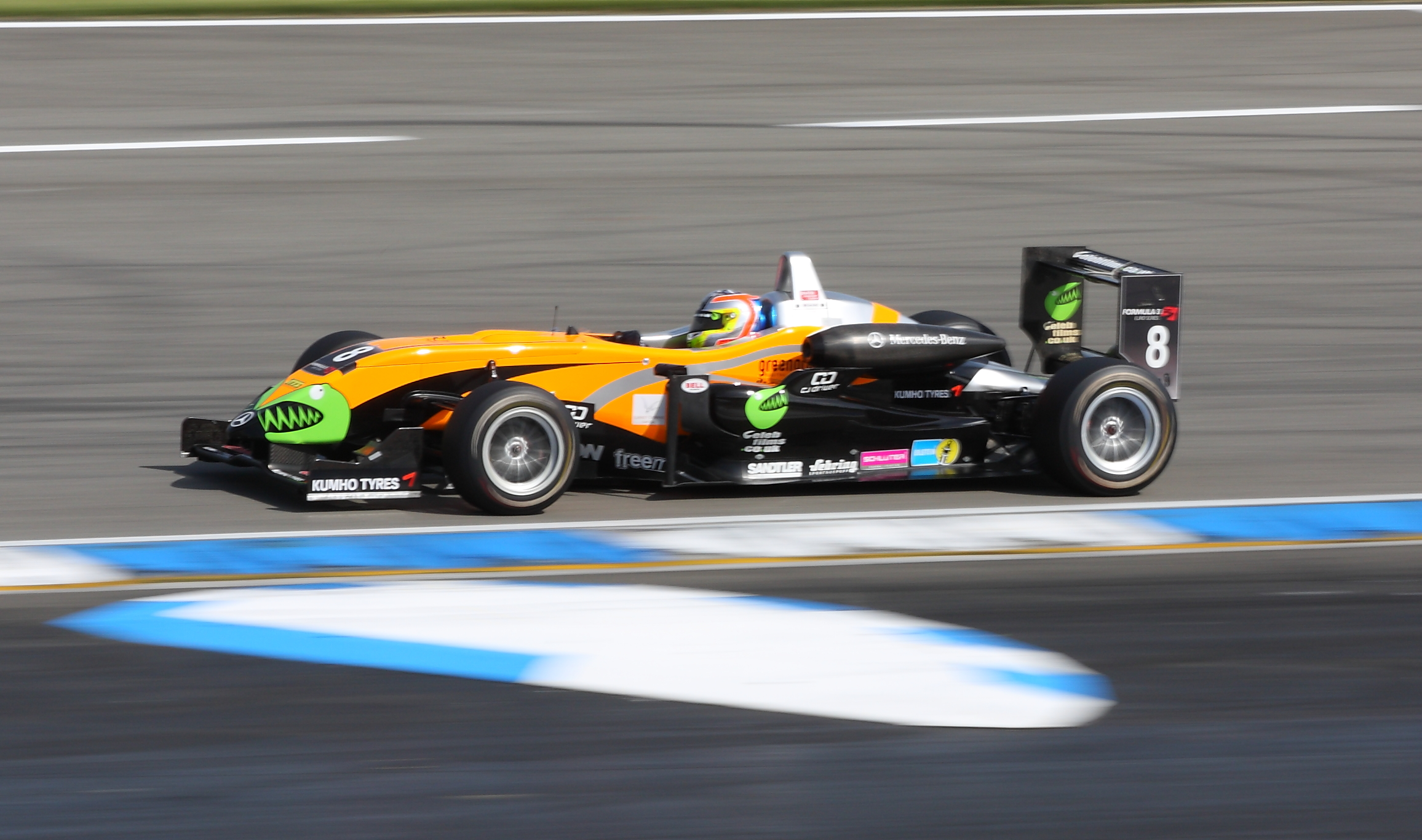 Formula 3 Euroseries, Hockenheimring, #8 Sam Bird